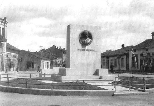 Original appearance of Stamen Panchev memorial in Botevgrad 1934 - 1950